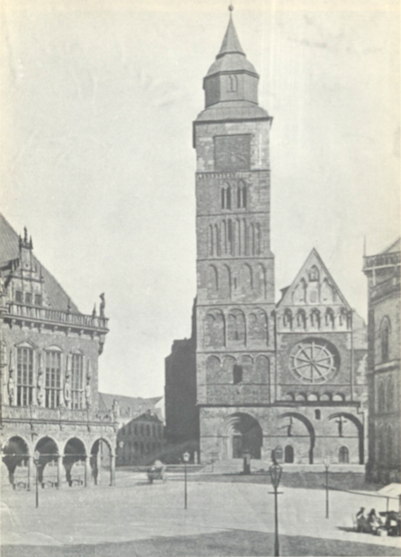 Western facade of Brenen Cathedral before the great relaunch of 1888 ff.